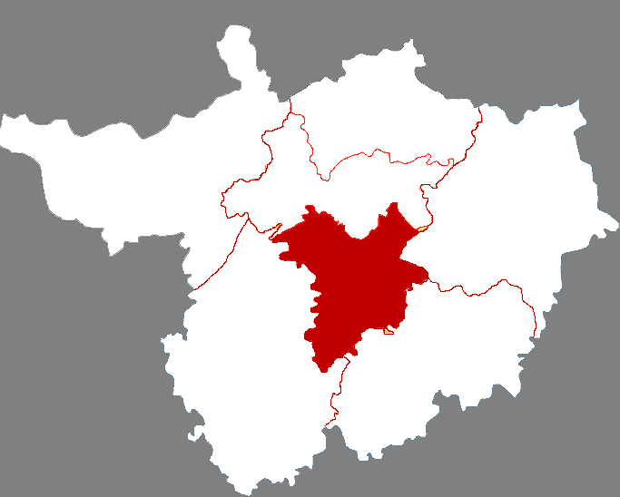 Location of Zhaohua District in Guangyuan City, China